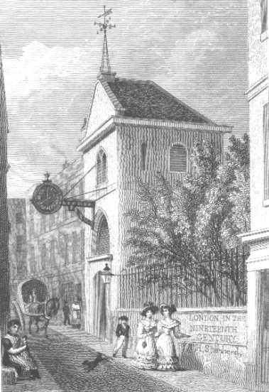 "St Martin Ongar, London", London: Jones & Co. (1831) Steel line engraving on paper. View north along Martin Lane with the old church of St. Martin Orgar - a church particularly associated with French-speaking Huguenots. Engraved by James Baylis Allen (1803-76) from the original pencil drawing (now in the Guildhall Library, London) by Thomas Hosmer Shepherd (1793-1864), for his series "London and its Environs in the Nineteenth Century" produced between 1829 and 1832. See the series advertised in the engraving on the church-yard wall (if you look carefully).